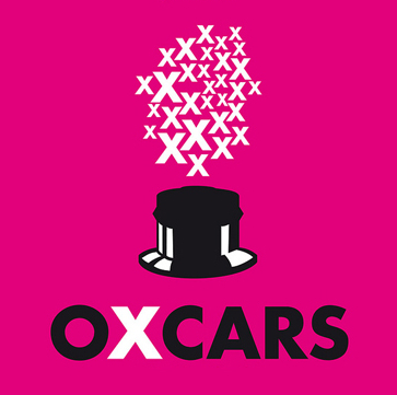 The biggest Free/Libre Culture show on Earth. Their business is not our culture. We are taking down a monopoly.